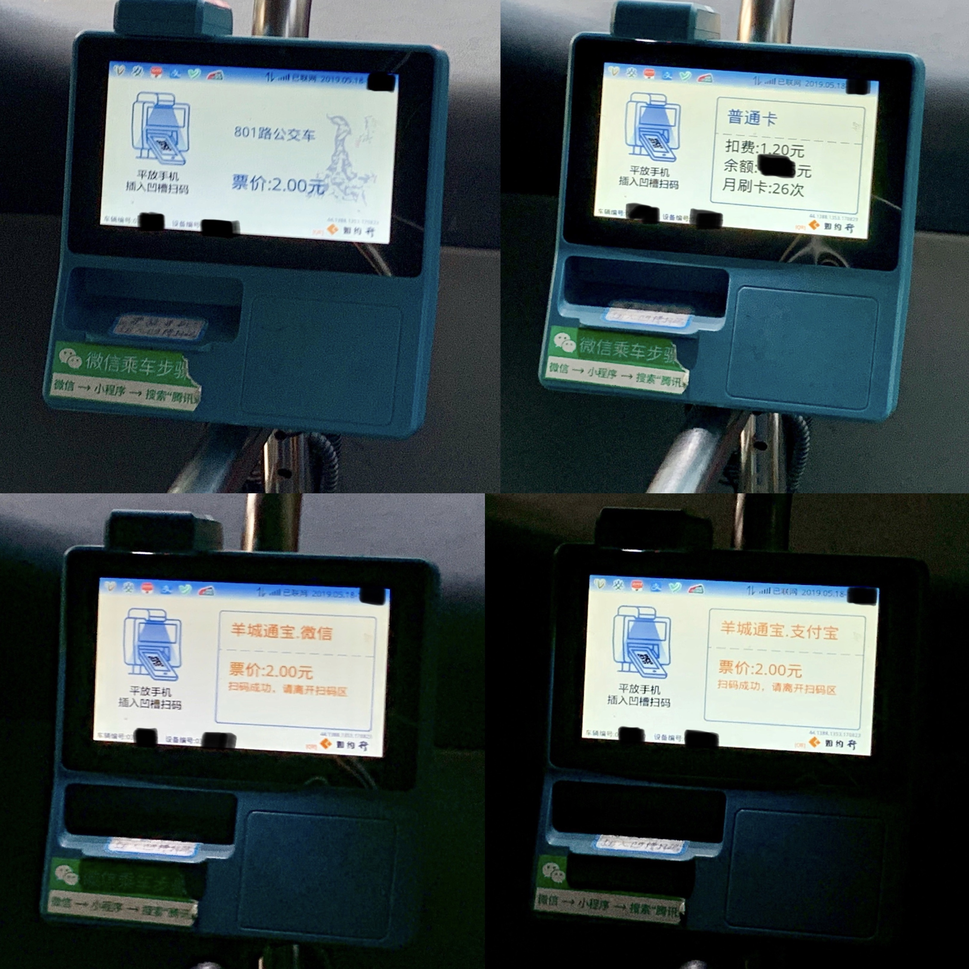 Yang Cheng Tong (Ram City Pass) Cards Reader (3rd generation) in Guangzhou Buses, which supports Lingnan Pass and China T-Union cards and Yang Cheng Tong QR code.